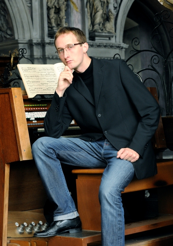 Young Czech Organist Pavel Svoboda